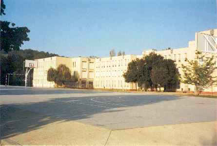 IES Baix Montseny